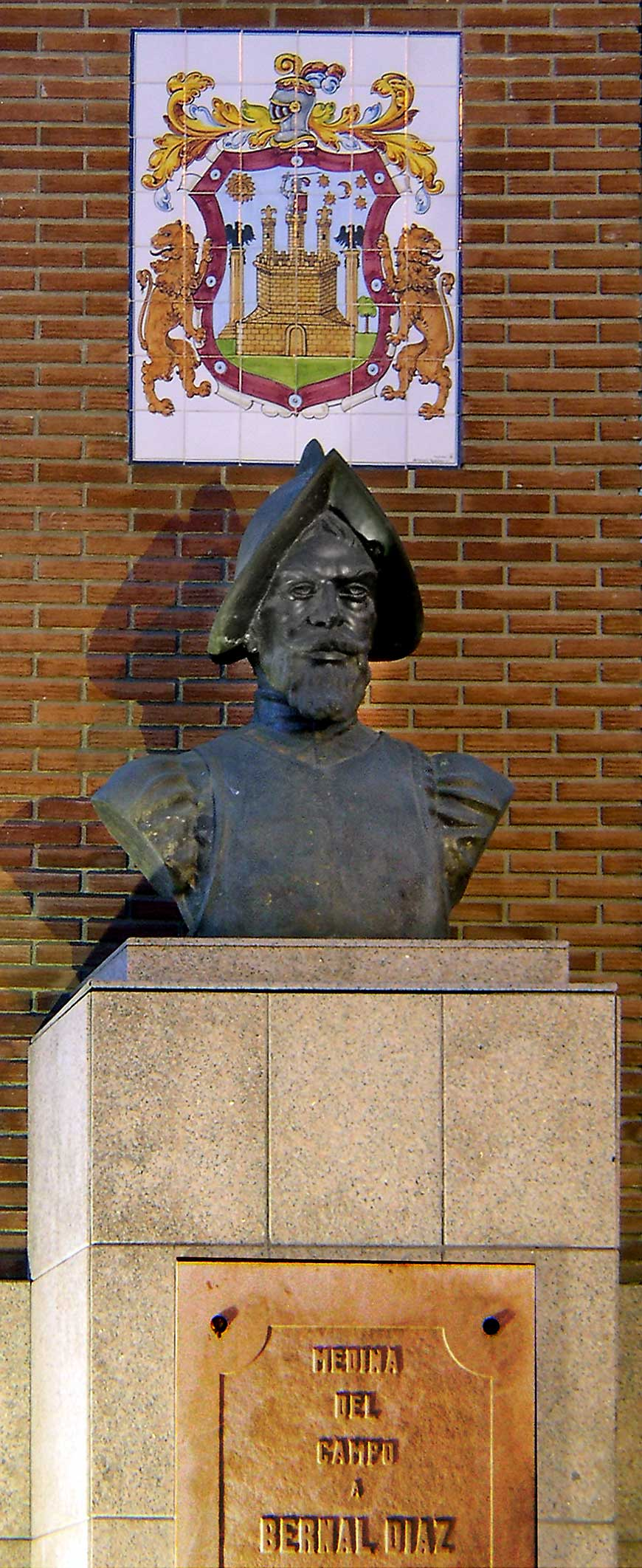 Memorial in honour of Bernal Días del Castillo(1492 or 1493 - 1581) was a soldier, who wrote an eyewitness account of the conquest of Mexico under Hernán Cortés, he wrote a book that named "The Conquest of New Spain", about this conquest. This memorial is located in Medina del Campo (Spain)